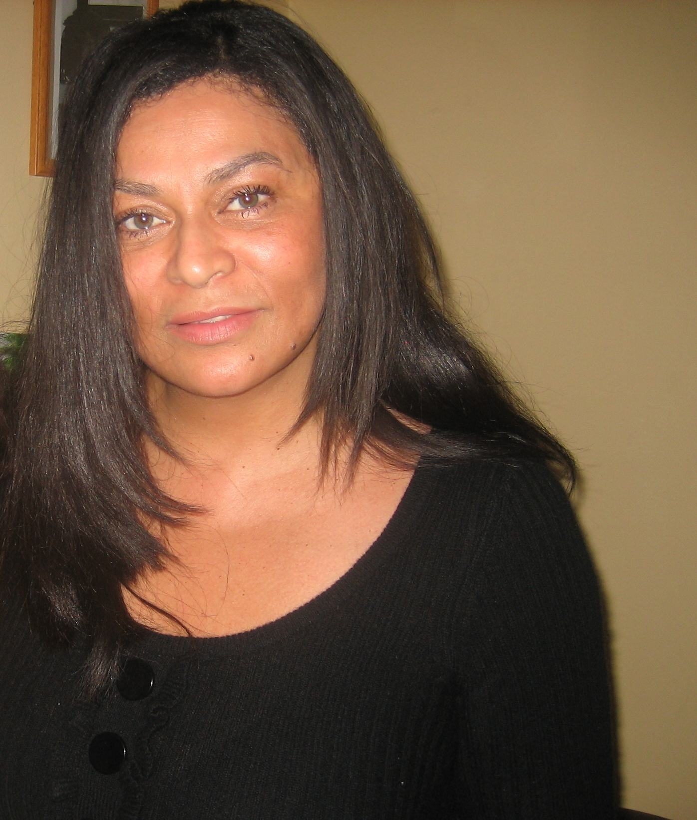 Tina Knowles in 2008.